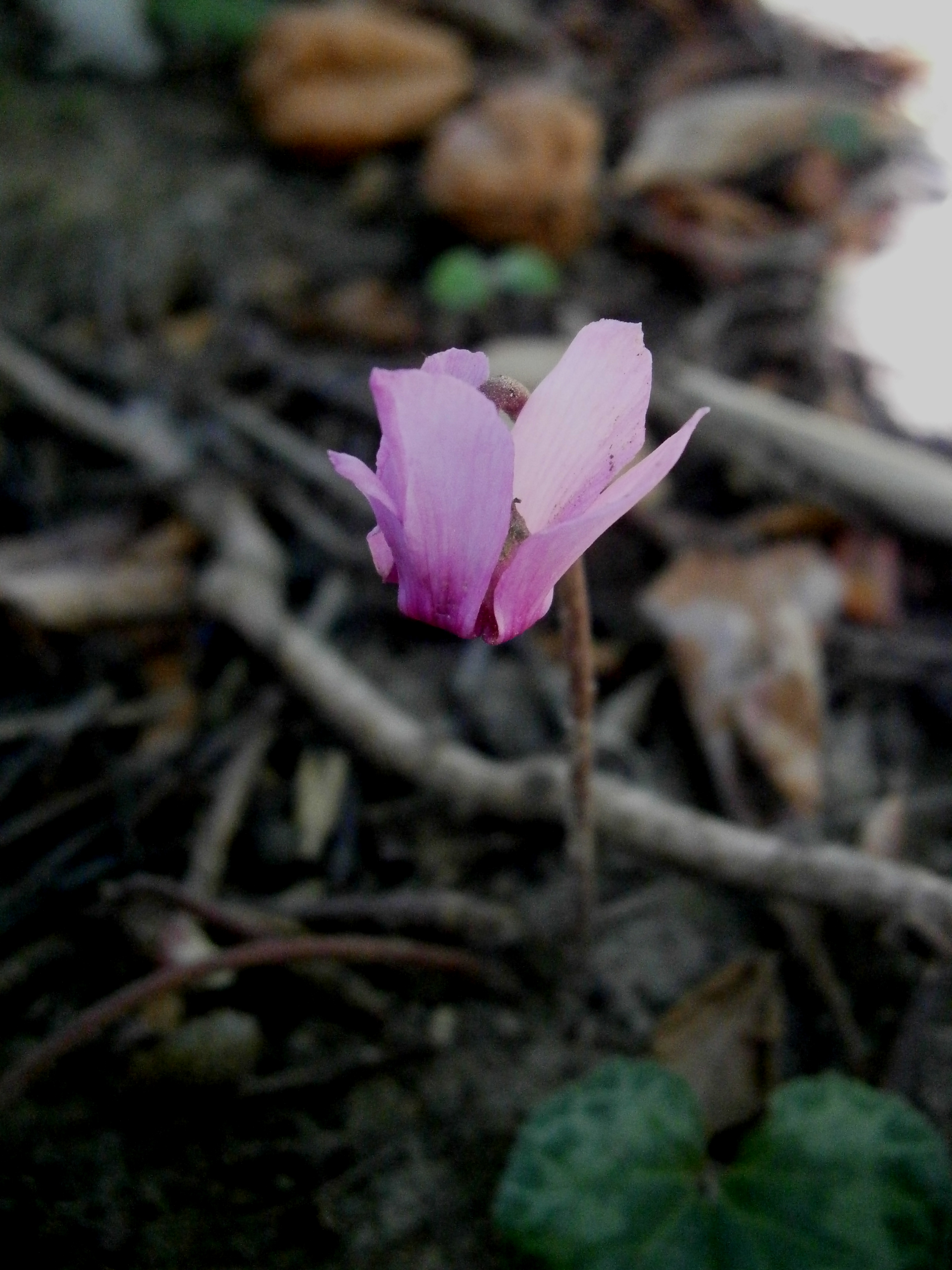 Cyclamen purpurascens in cultivation